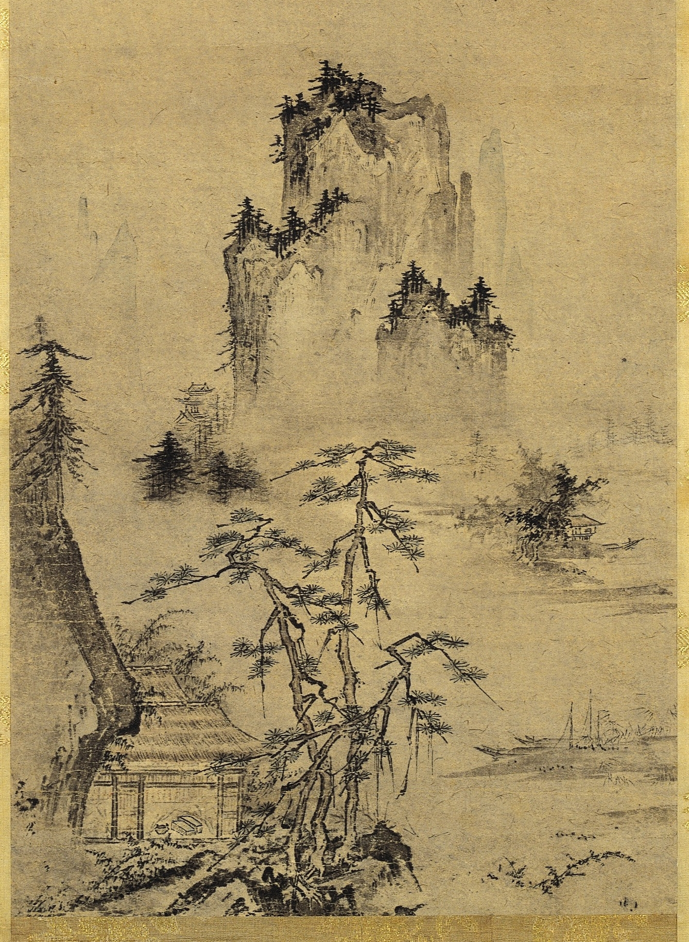 Landscape (紙本墨画淡彩山水図, shihon bokuga tansai sansuizu). Hanging scroll, 108 cm x 32.7 cm. Ink and light color on paper. Located in the Nara National Museum, Nara, Japan. The scroll has been designated as National Treasure of Japan in the category paintings.